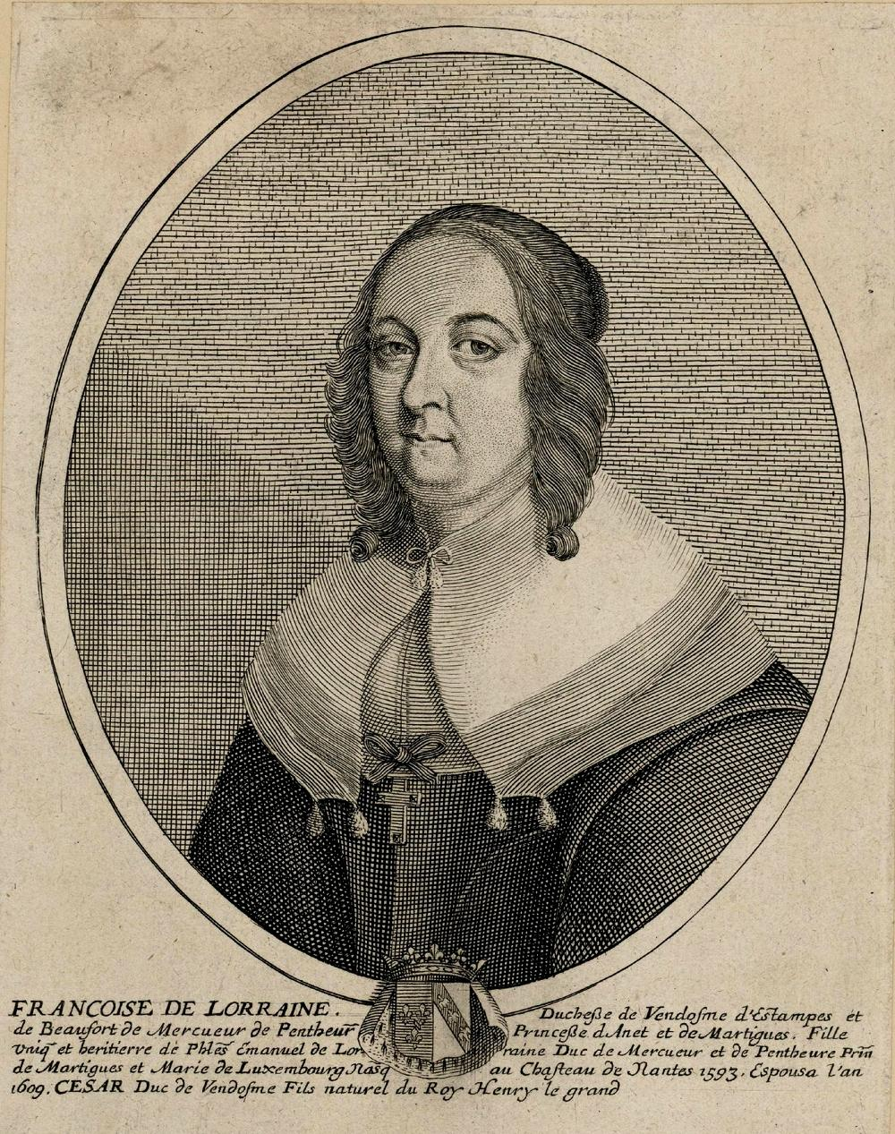 Portrait of Françoise of Lorraine (1592-1669) Duchess of Vendôme